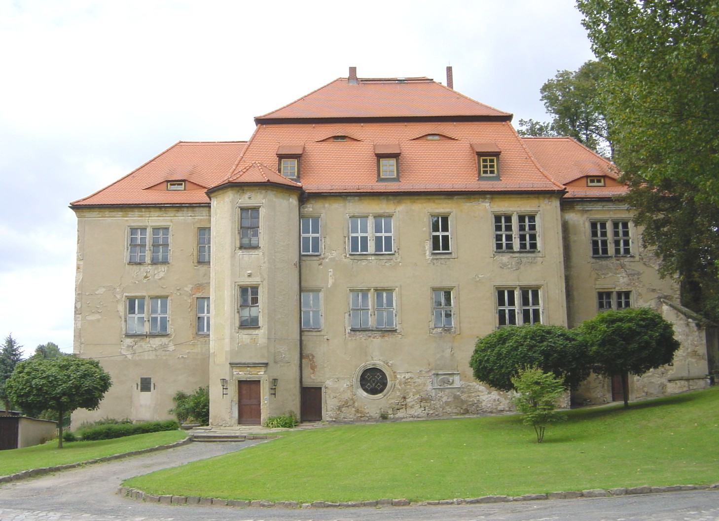 Castle in Struppen, Saxony, Germany